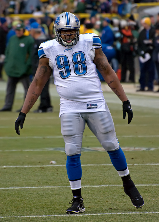 Detroit Lions player Nick Fairley